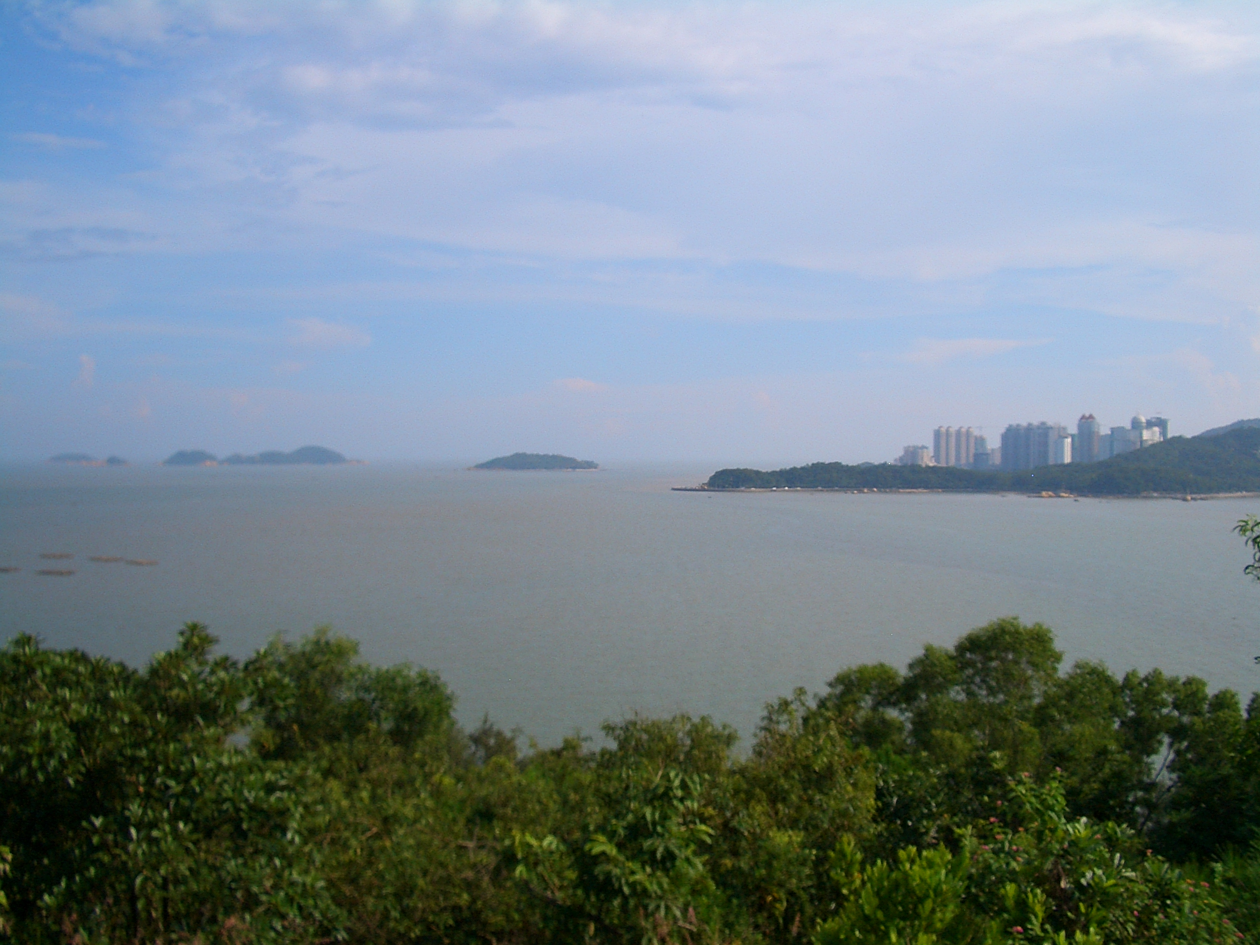 View of a section of Zhuhai and Jiuzhou Islands offshore from a hill on Yeli Island